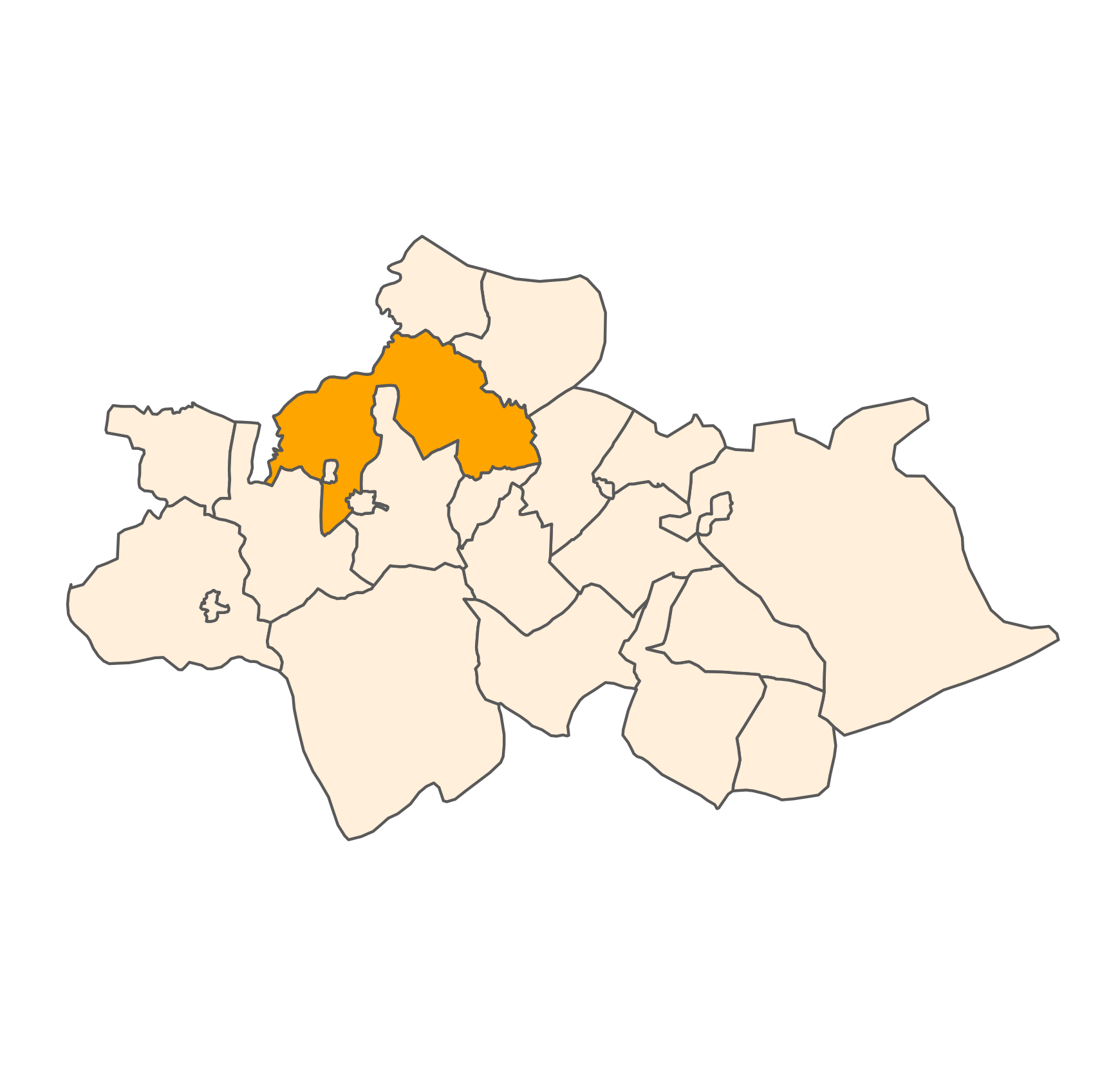 Commune (Orange), Sefrou Province (Antique White)